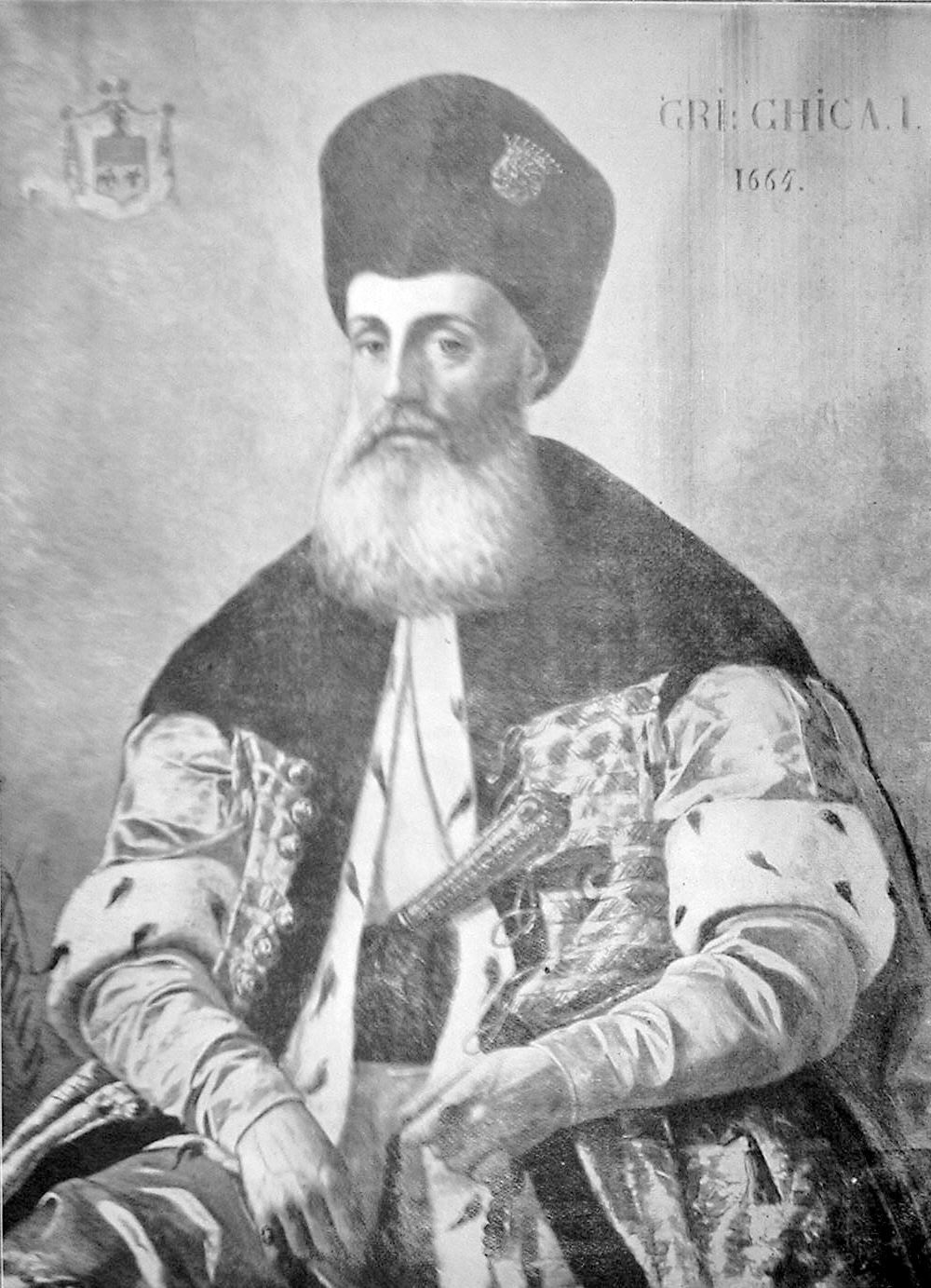 Grigore Ghica